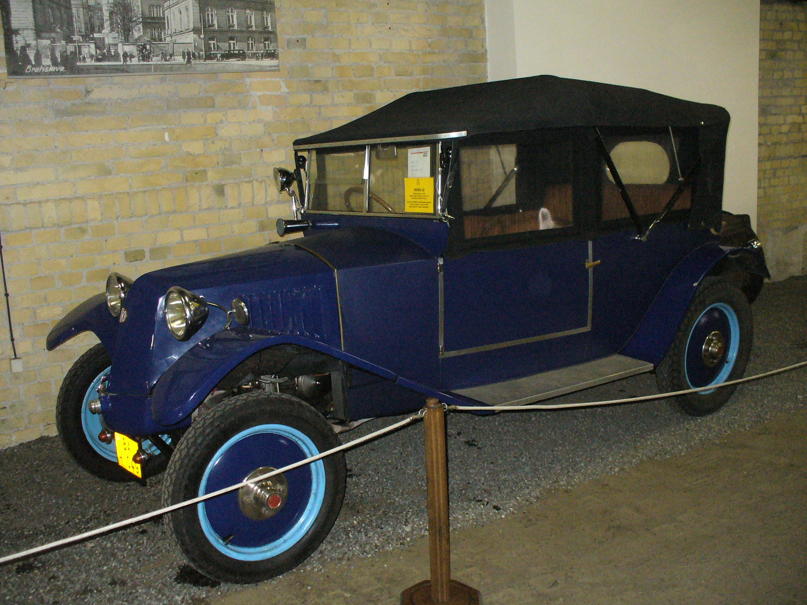 Tatra 12 at Transport Museum in Bratisla, Slovakia